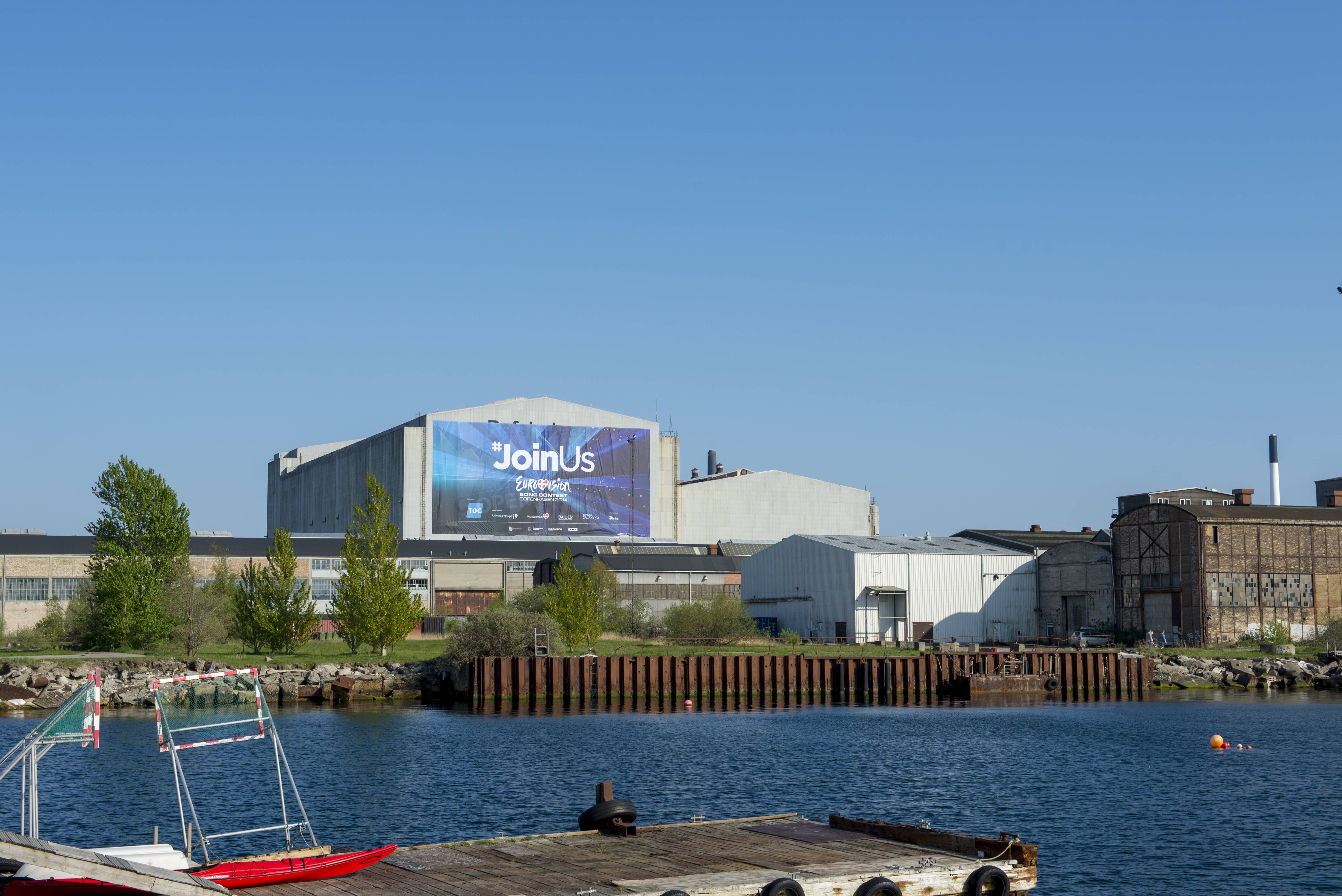 B&W Hallerne right before the Eurovision Song Contest 2014.